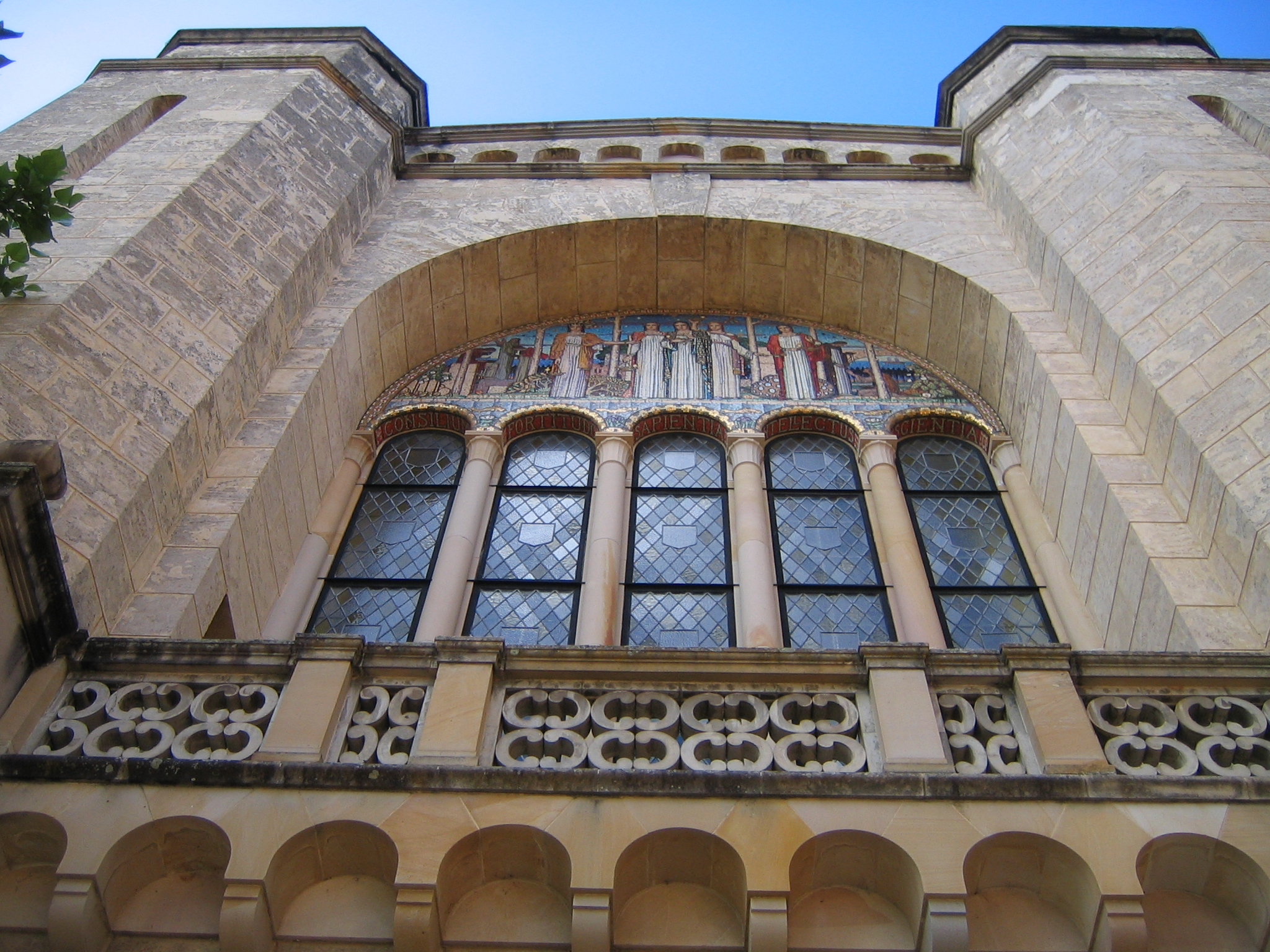 "Five Lamps of Learning" mosaic, University of Western Australia, Crawley, Western Australia.